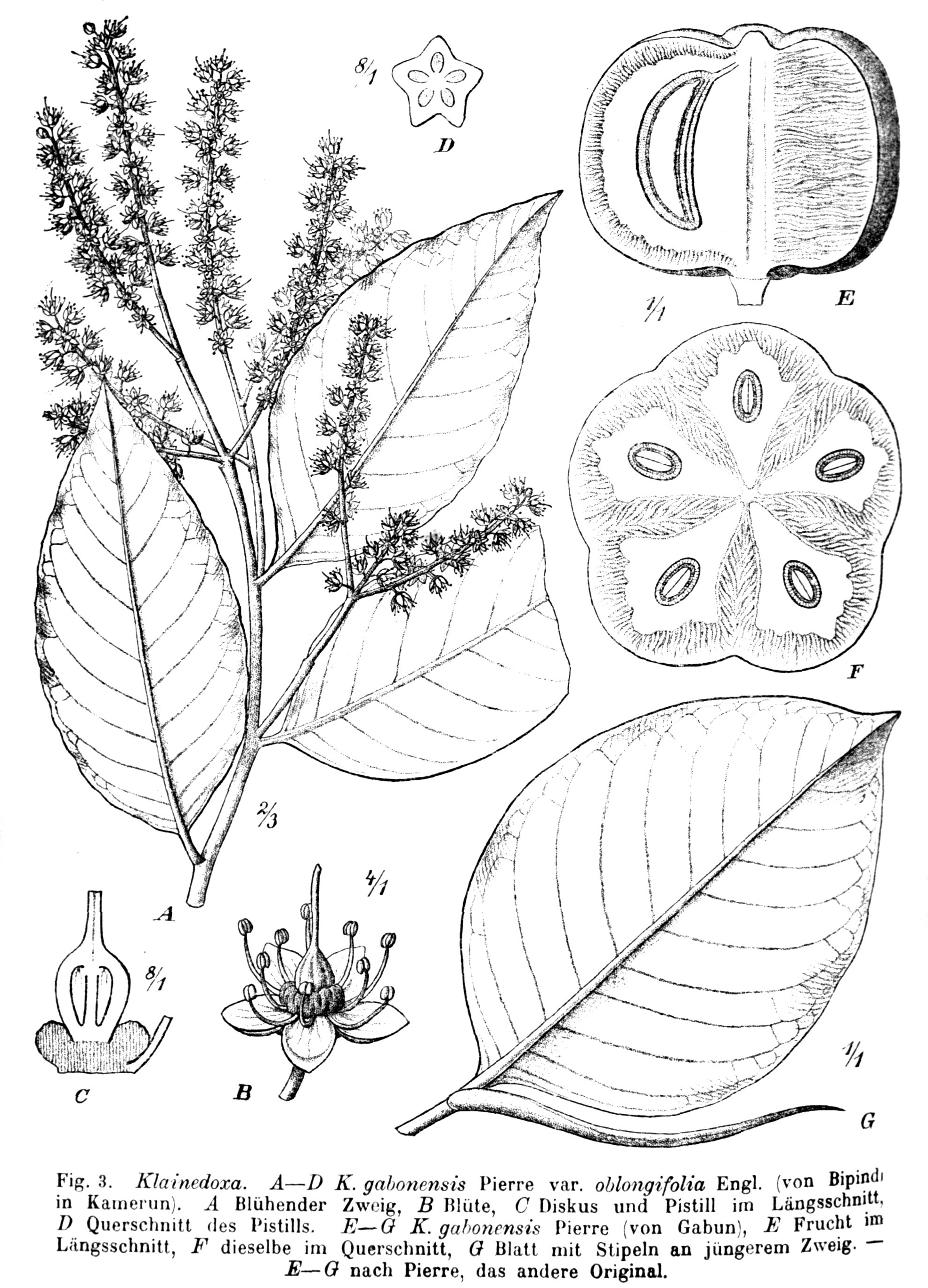 Botanische Jahrbucher fur Systematik, Pflanzengeschichte und Pflanzengeographie, vol. 46: p. 286 (1912)